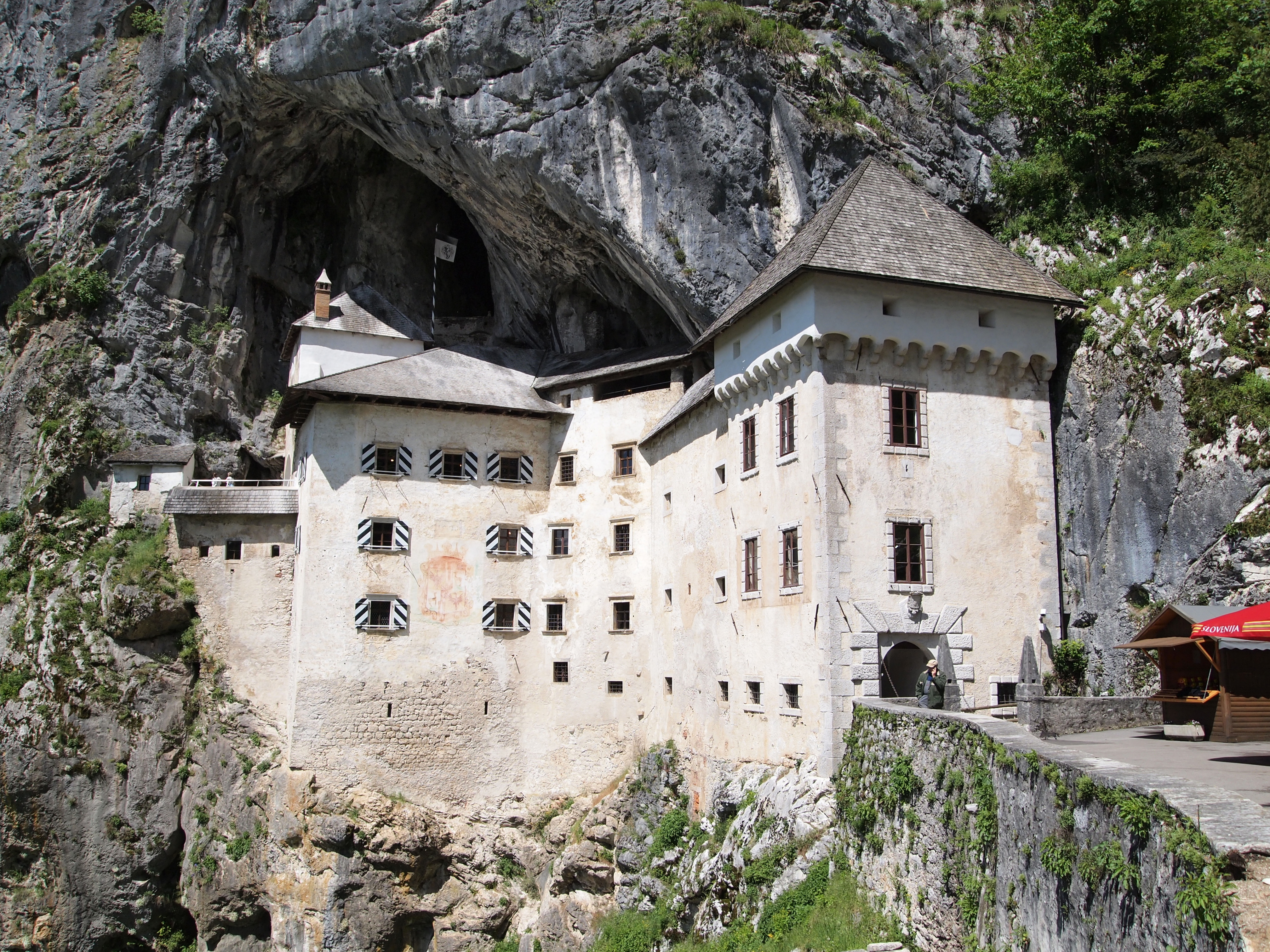 Predjama Castle. This photograph was taken with an Olympus E-PL1